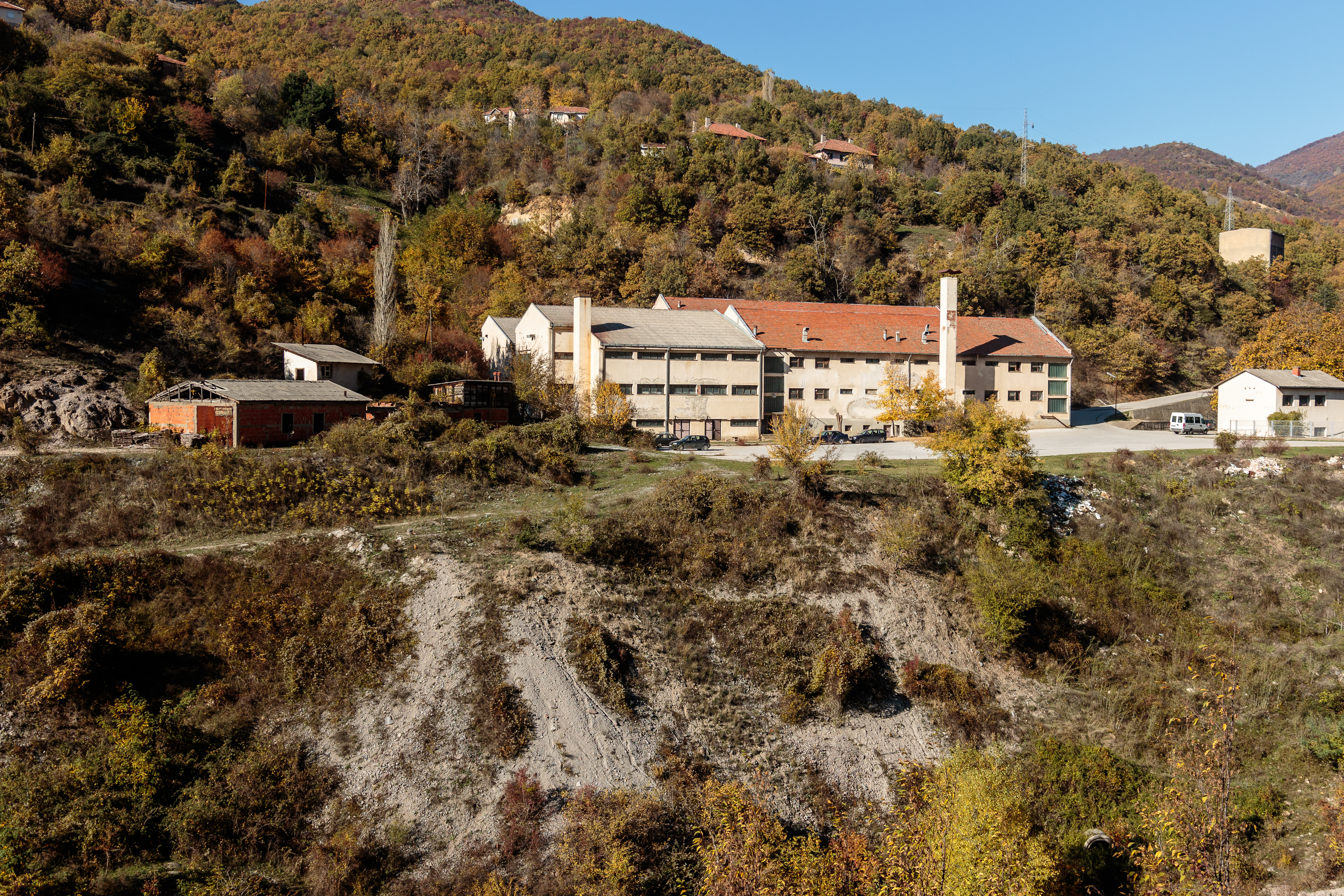 Dobrevo mine in the eponymous village, Zletovo-Probištip Region, Macedonia